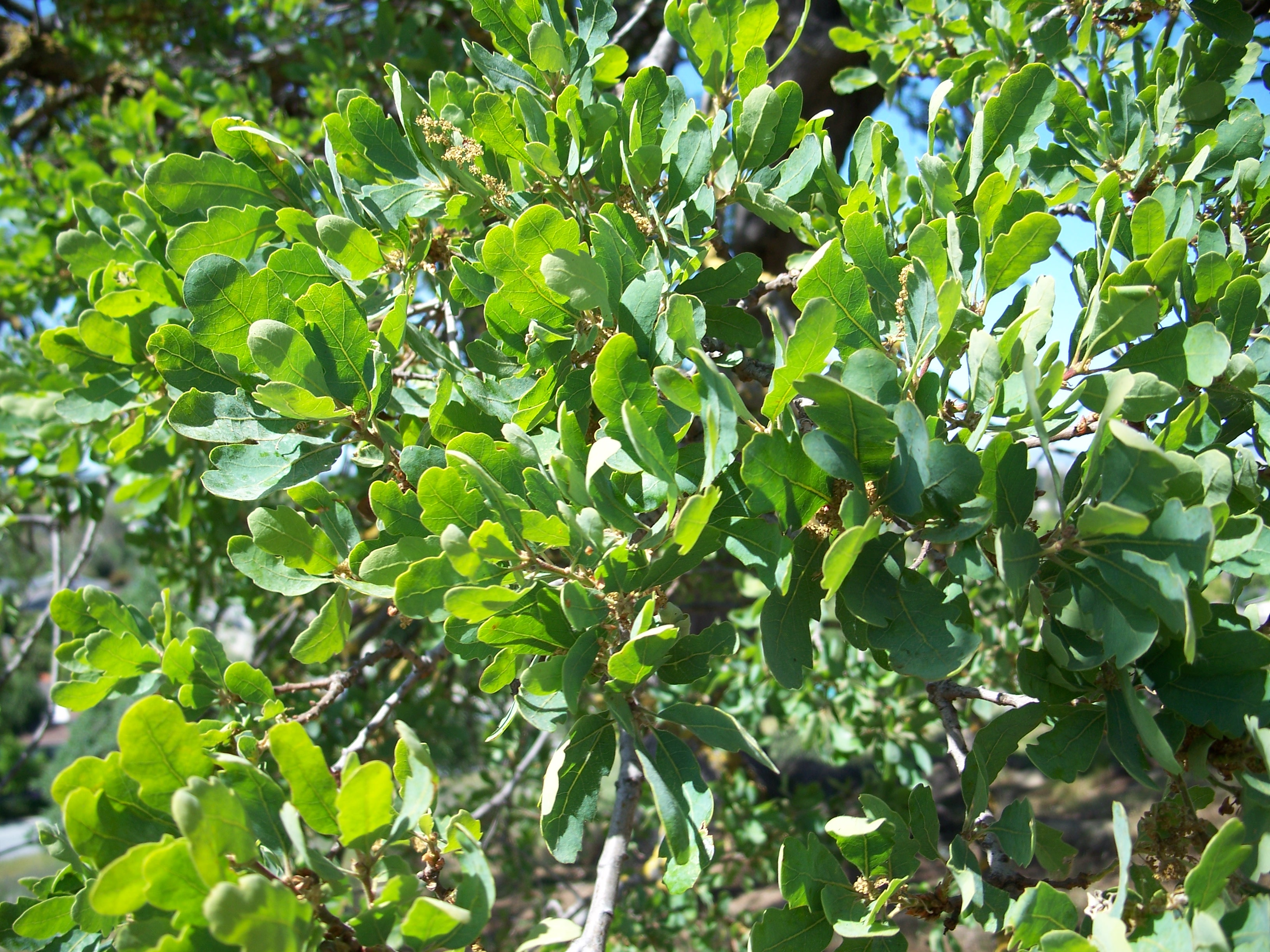 Blue Oak